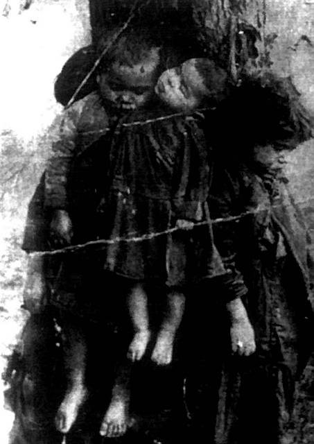 Gypsy children murdered by their mother - Marianna Dolińska